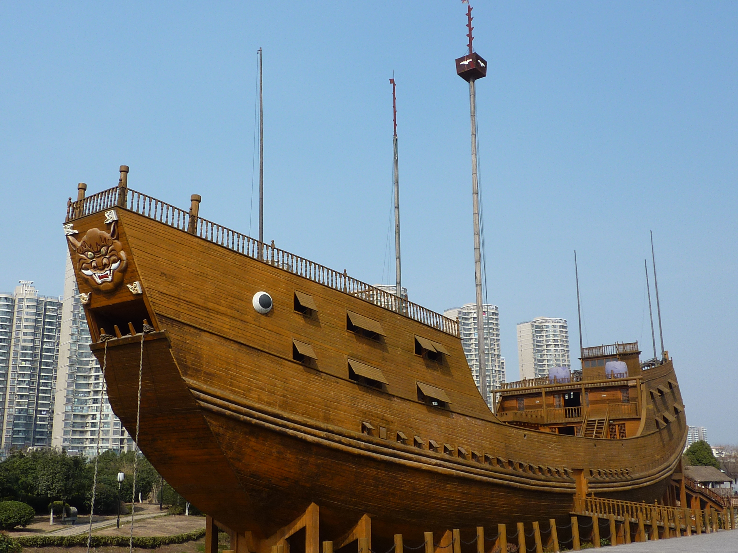 A full-size model of a "middle-sized treasure boat" (63.25 m long) of the Zheng He fleet at the Treasure Boat Shipyard site in Nanjing. Build ca. 2005 from concrete, lined with wooden planks.